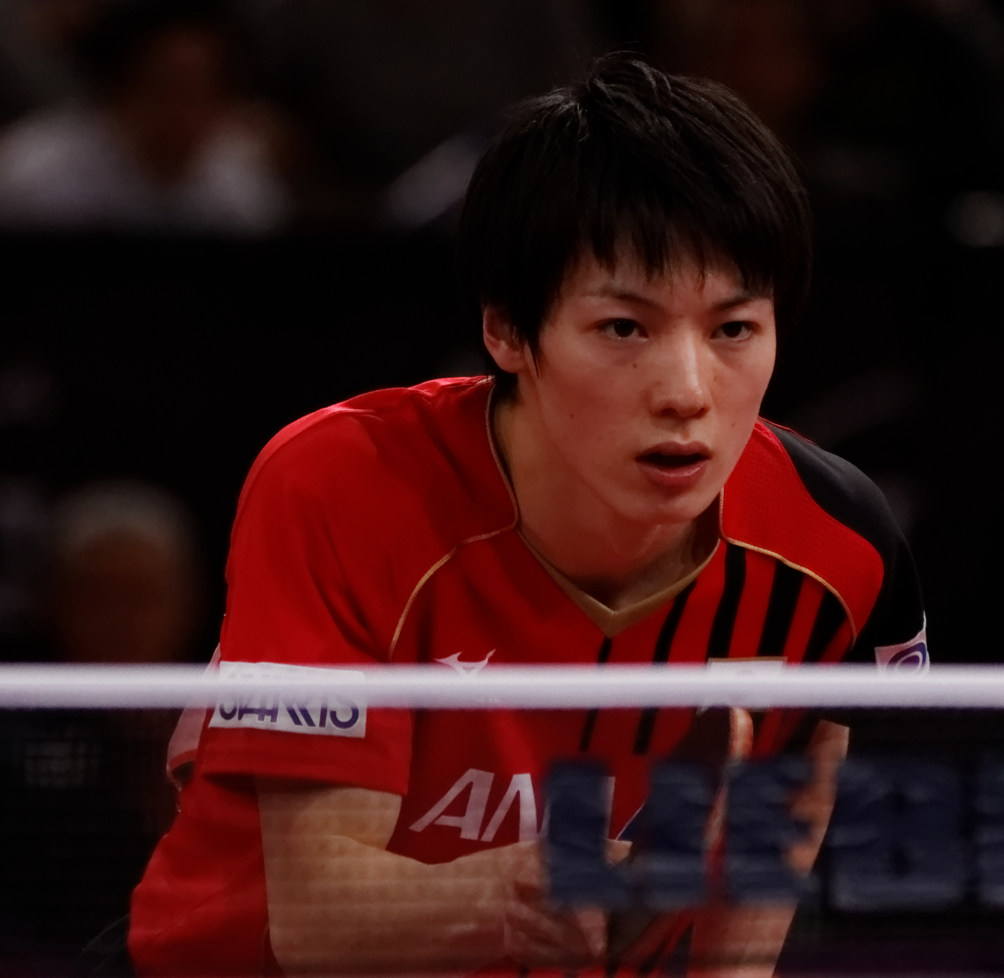 2013 World Table Tennis Championships, Paris. Men's Singles Round 4. Kenta Matsudaira vs Vladimir Samsonov.